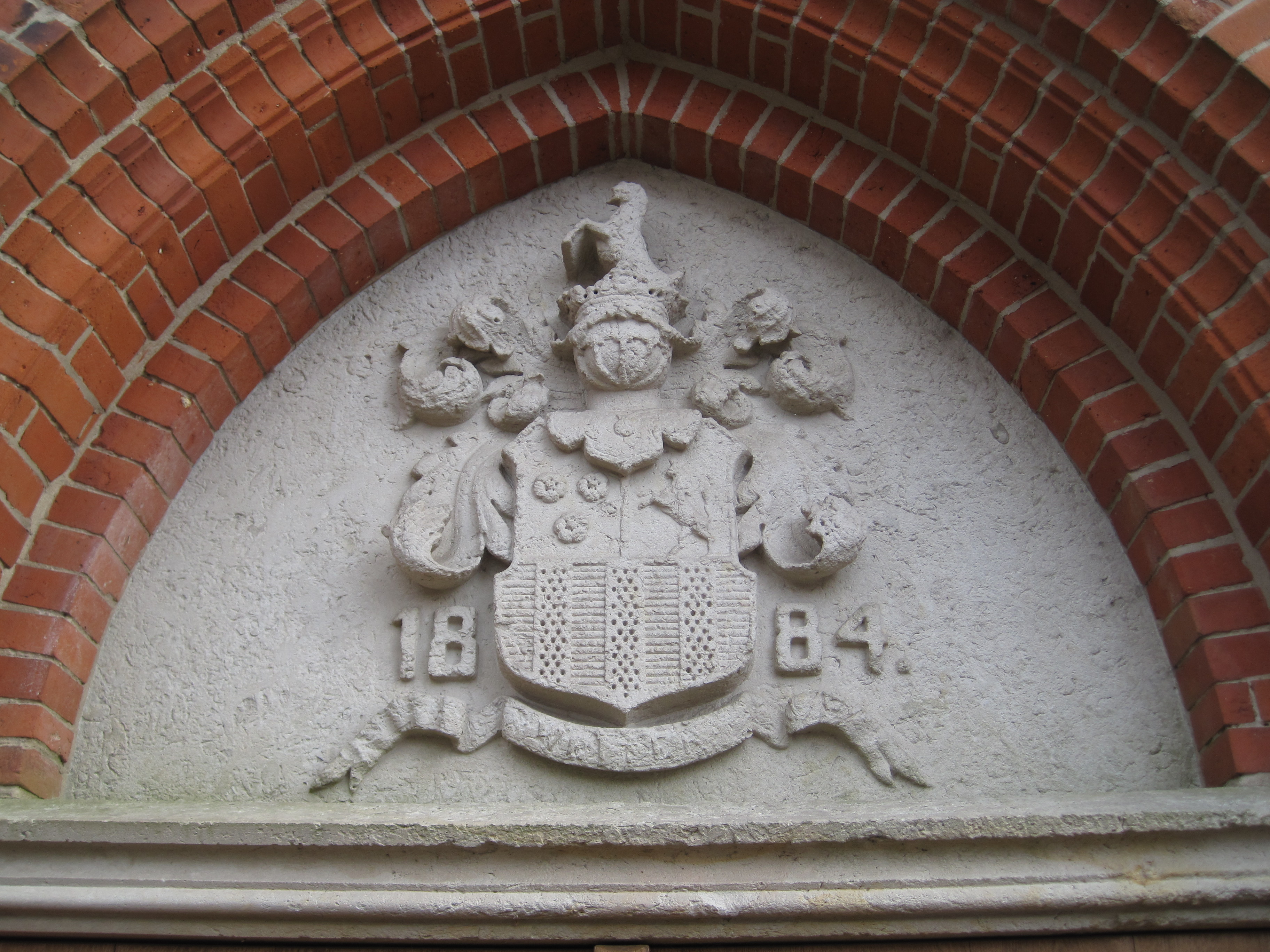 Mausoleum (1884) in Gresse, detail of Coat of arms of the Ohlendorff family. Estate owner was Albertus von Ohlendorff.